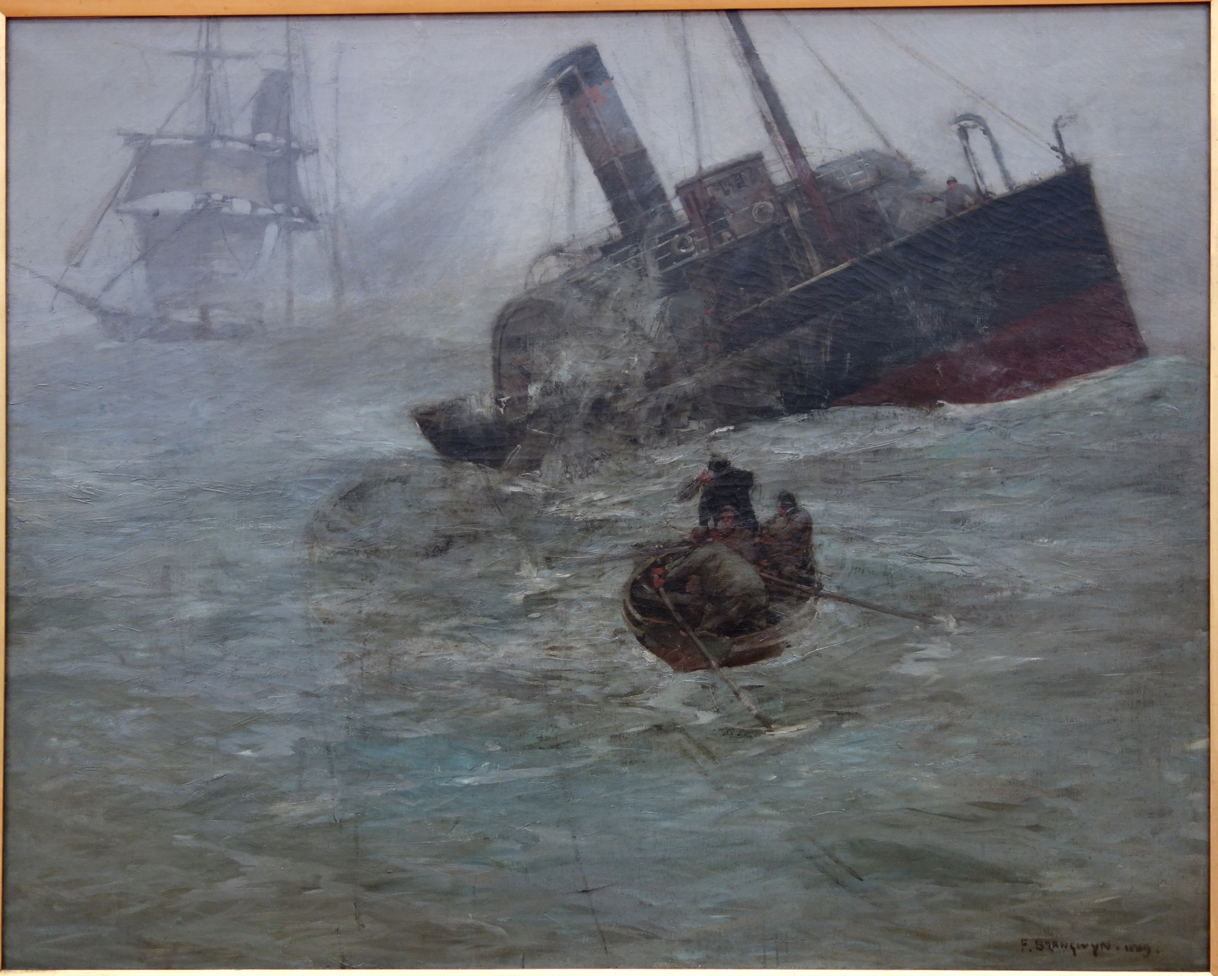 Painting in the National Museum of Western Art, Tokyo, Japan. This artwork is in the public domain because the artist died more than 70 years ago.